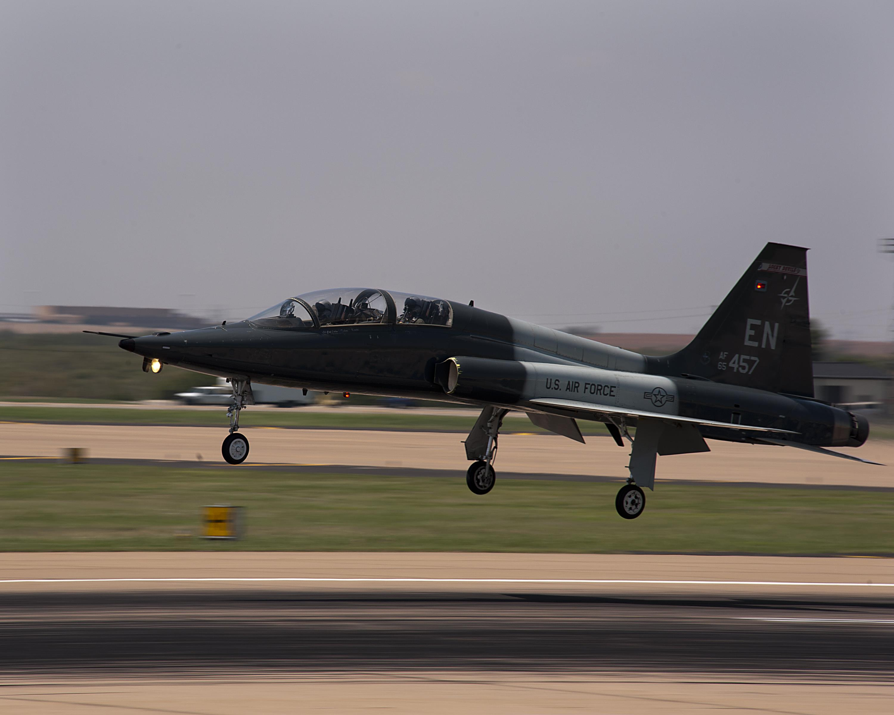 Pilots practice touch-and-go maneuvers in a T-38 Talon during training Aug. 21, 2013, at Sheppard Air Force Base, Texas. The Talon is a two-seat, twin-engine supersonic jet trainer used to train pilots in the international Euro-NATO Joint Pilot Training Program. The pilots are assigned to the 80th Flying Training Wing. (U.S. Air Force photo/Danny Webb)